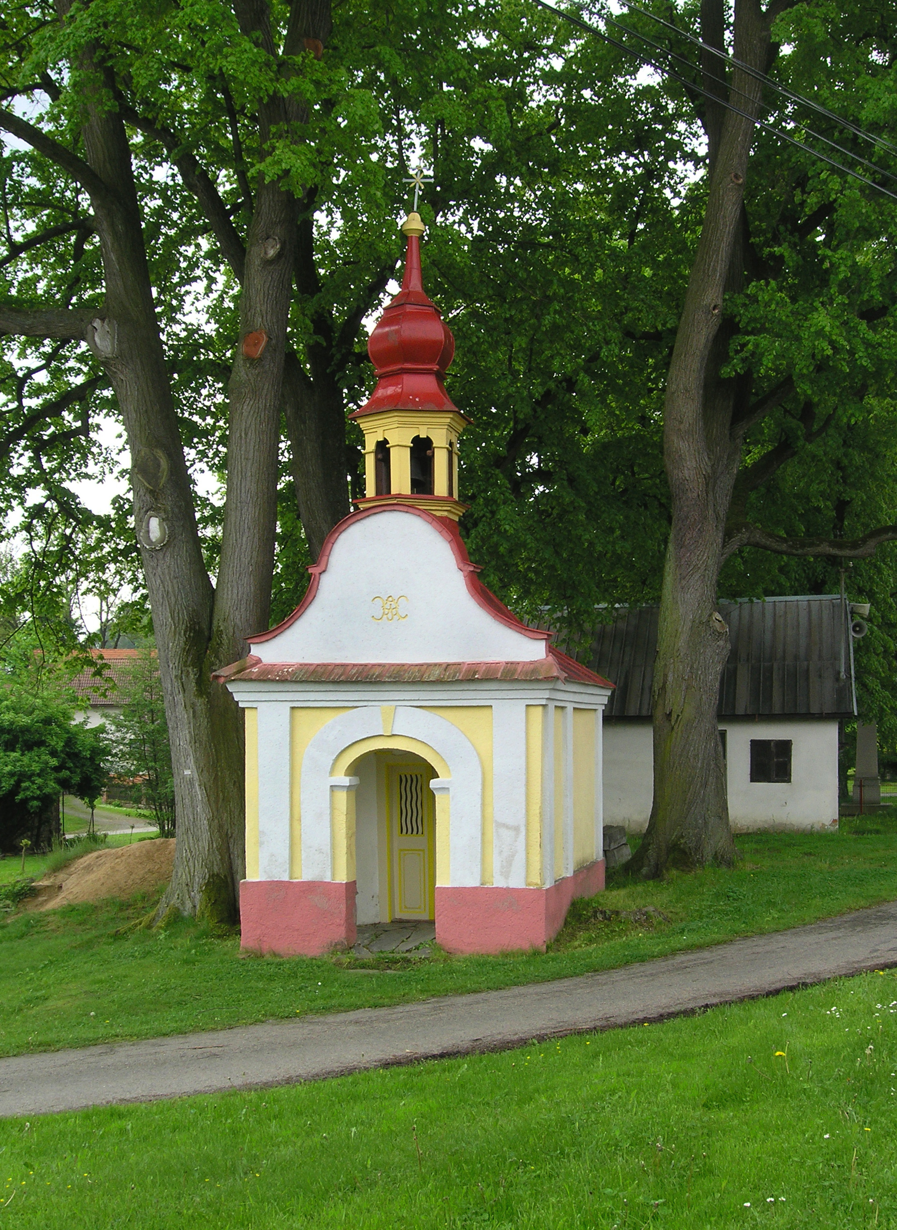 Chapel in Jiříkov, part of Kámen village, Czech Republic